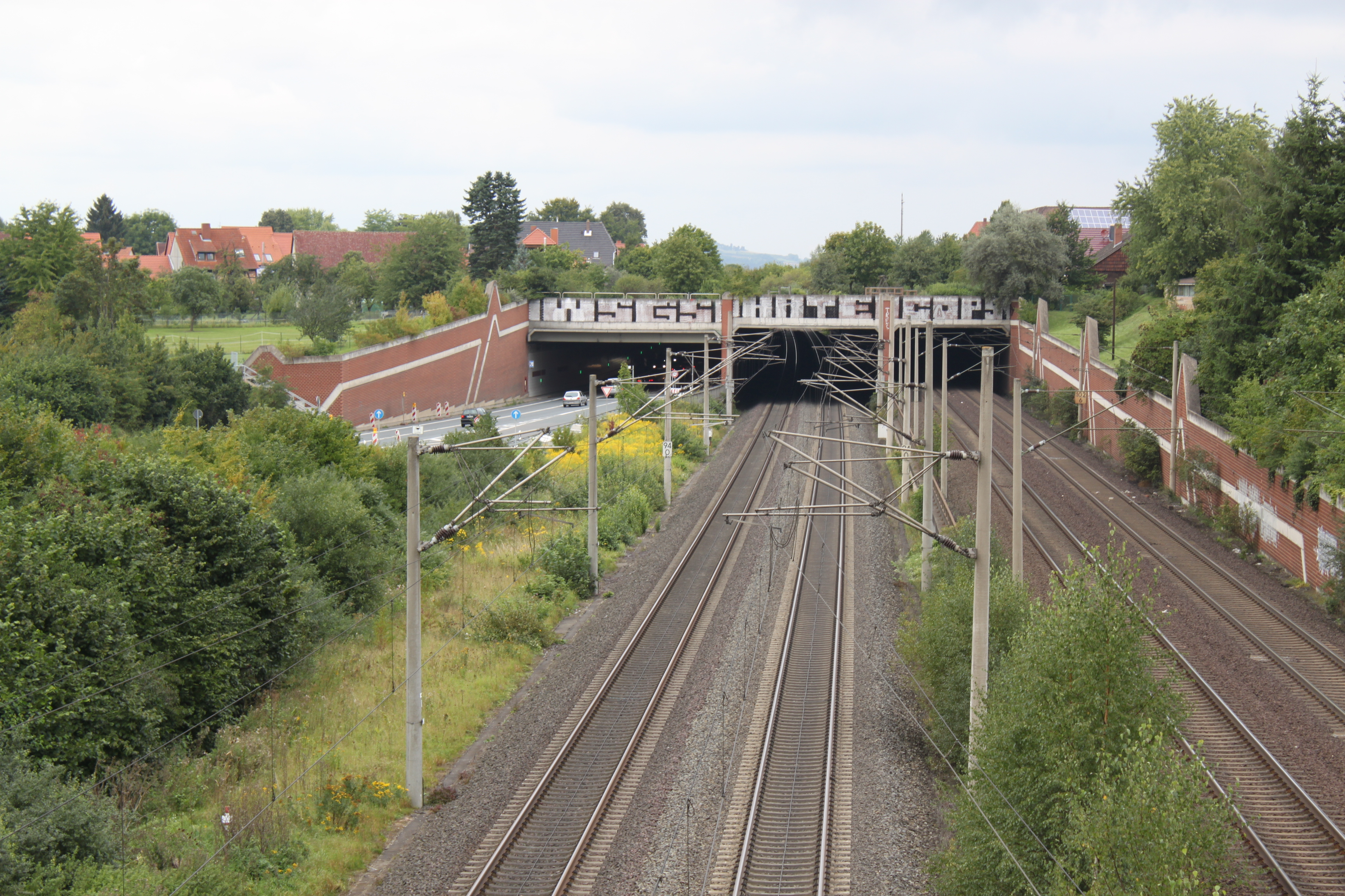 South entrance to Bovender Deckel.